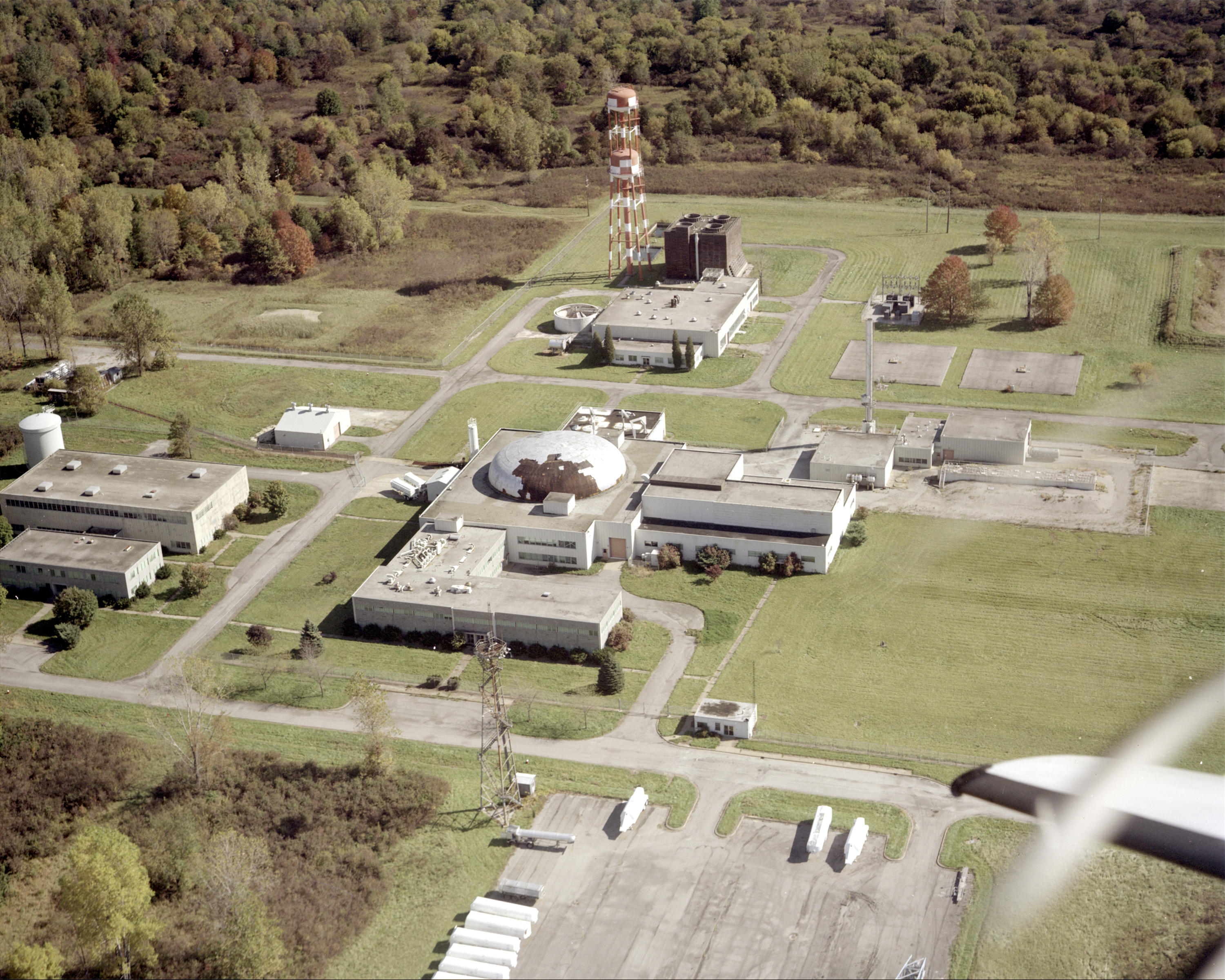 For almost thirty years, the facility remained sealed and constantly monitored to ensure that no contamination escaped. However, aesthetic maintenance was not important, as shown by the peeling paint on the once shiny reactor dome. Image # : C-1969-10920